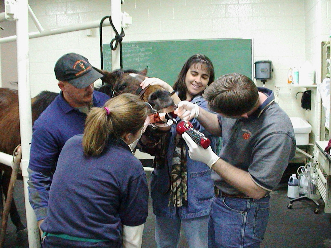 Veterinary students in the United States are clinically trained in equine dentistry in August 2006.